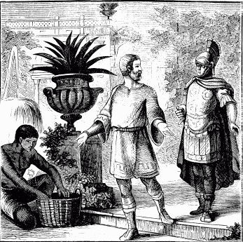 Diocletian in Retirement